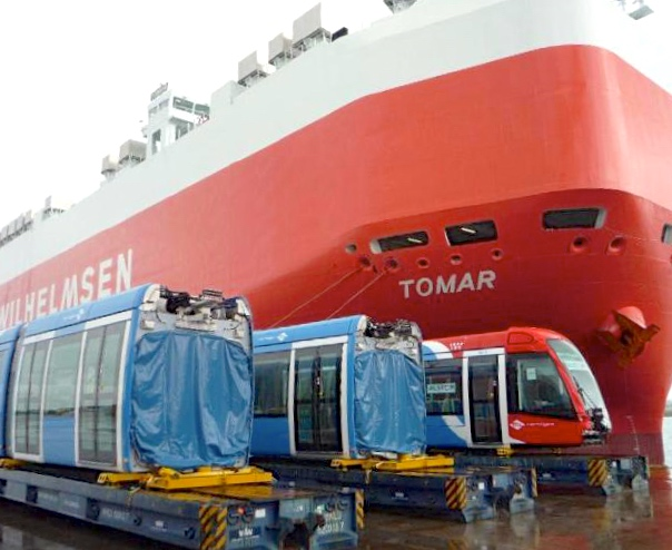 Three segments of an Alstom Citadis 302 tram are on a Melbourne wharf after unloading from the vessel Tomar from Spain. The trams were destined for modification at Preston Workshops, Melbourne, before being transported to Adelaide by road.